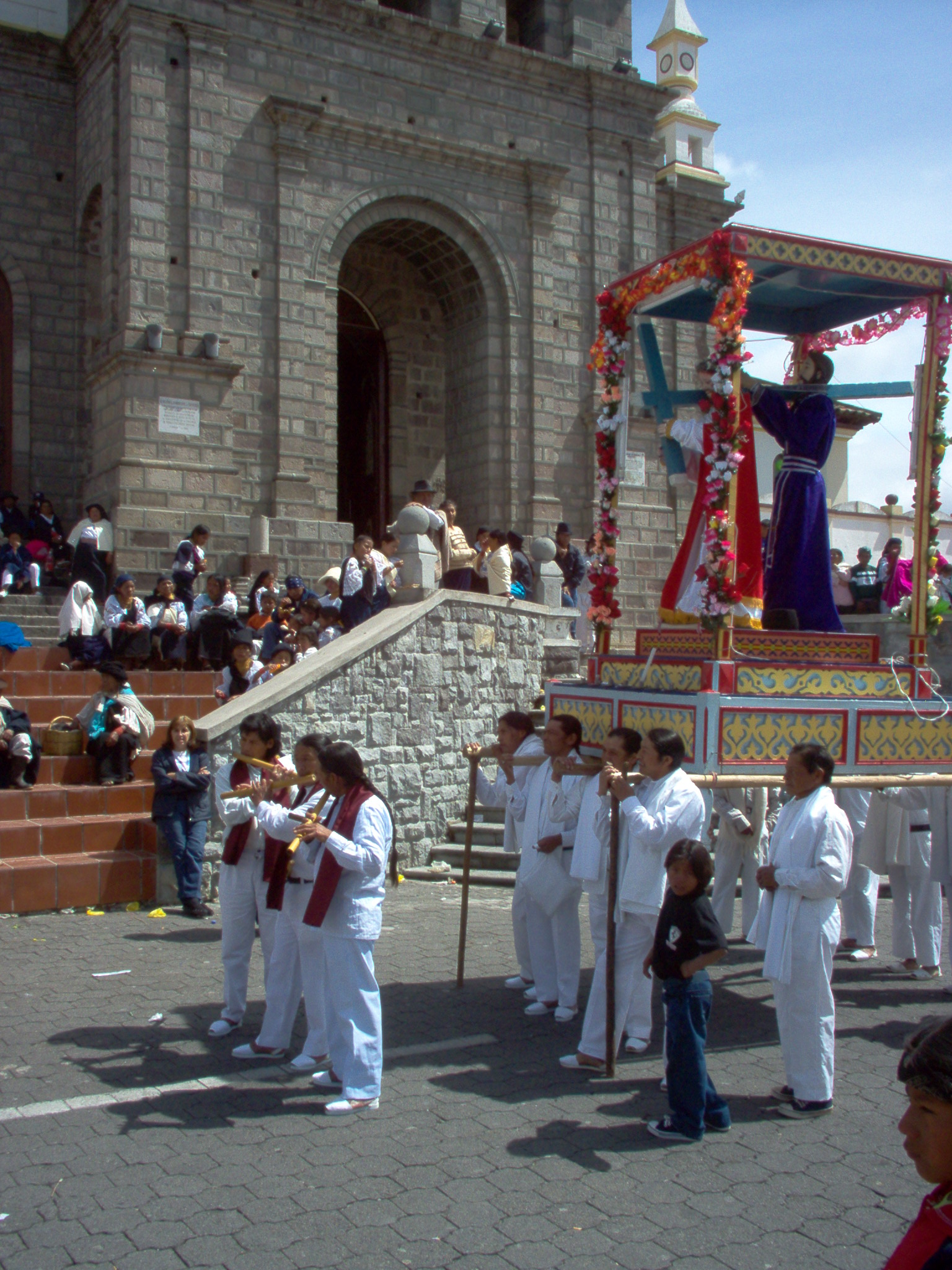 Semana Santa celabrations in Cotacachi, Imbabura, Ecuador. 2006.